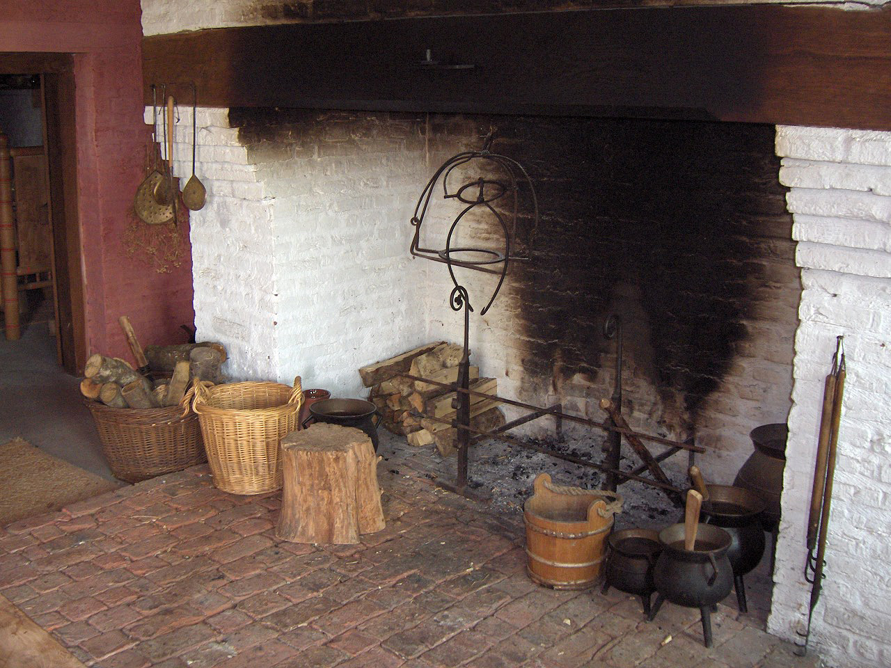 Medieval hearth with appurtenances; at the archeological site of Walraversijde c.1465; near Oostende, Belgium